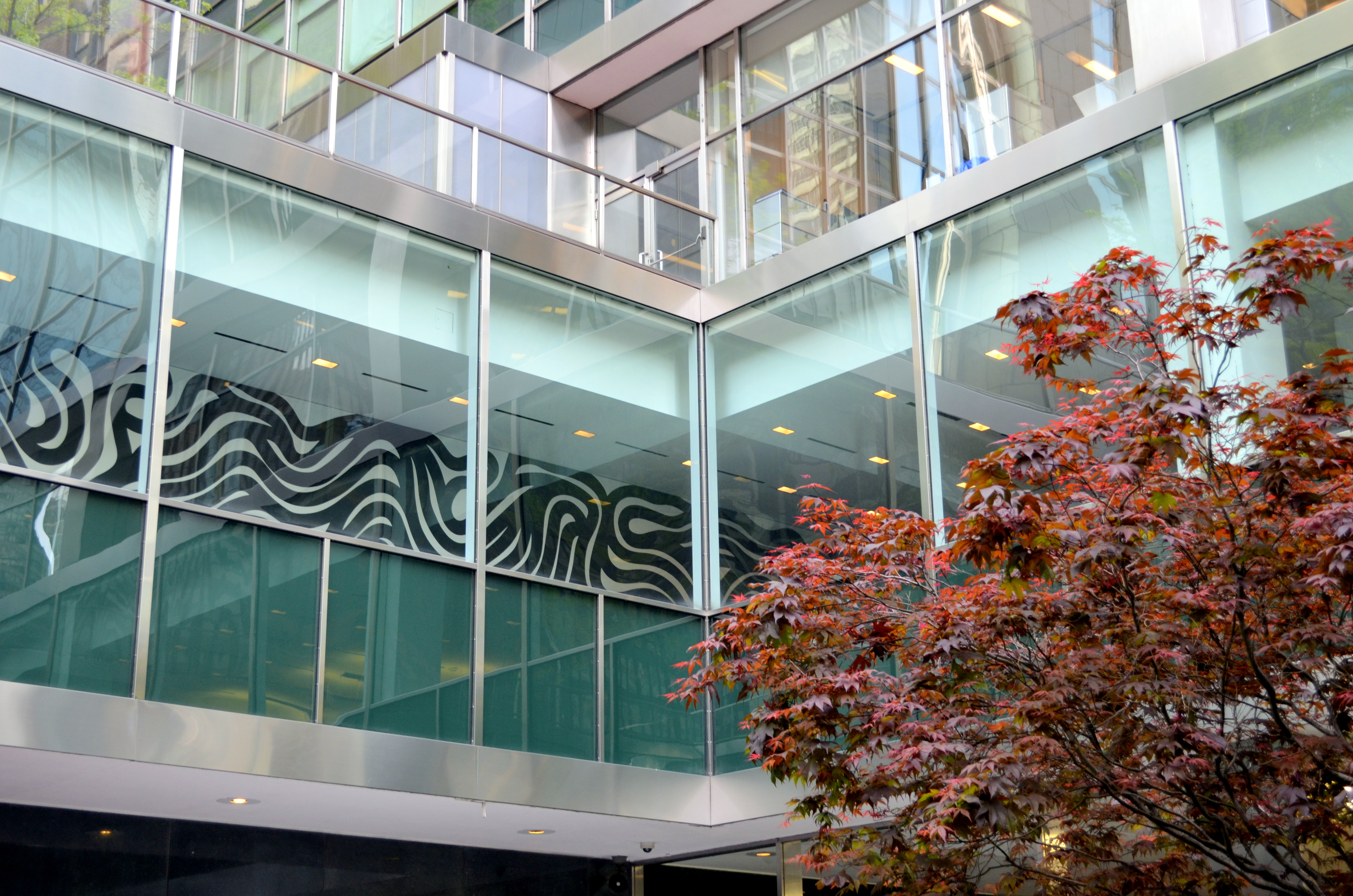 Lever House, 1951-1952; Gordon Bunshaft at Skidmore, Owings, and Merrill. Sol LeWitt, Wall Drawing 999.